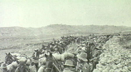 NEAR BETHLEHEM, PALESTINE, 1914-1918 WAR. THE 3RD LIGHT HORSE REGIMENT AIF, WITH BETHLEHEM IN THE BACKGROUND.